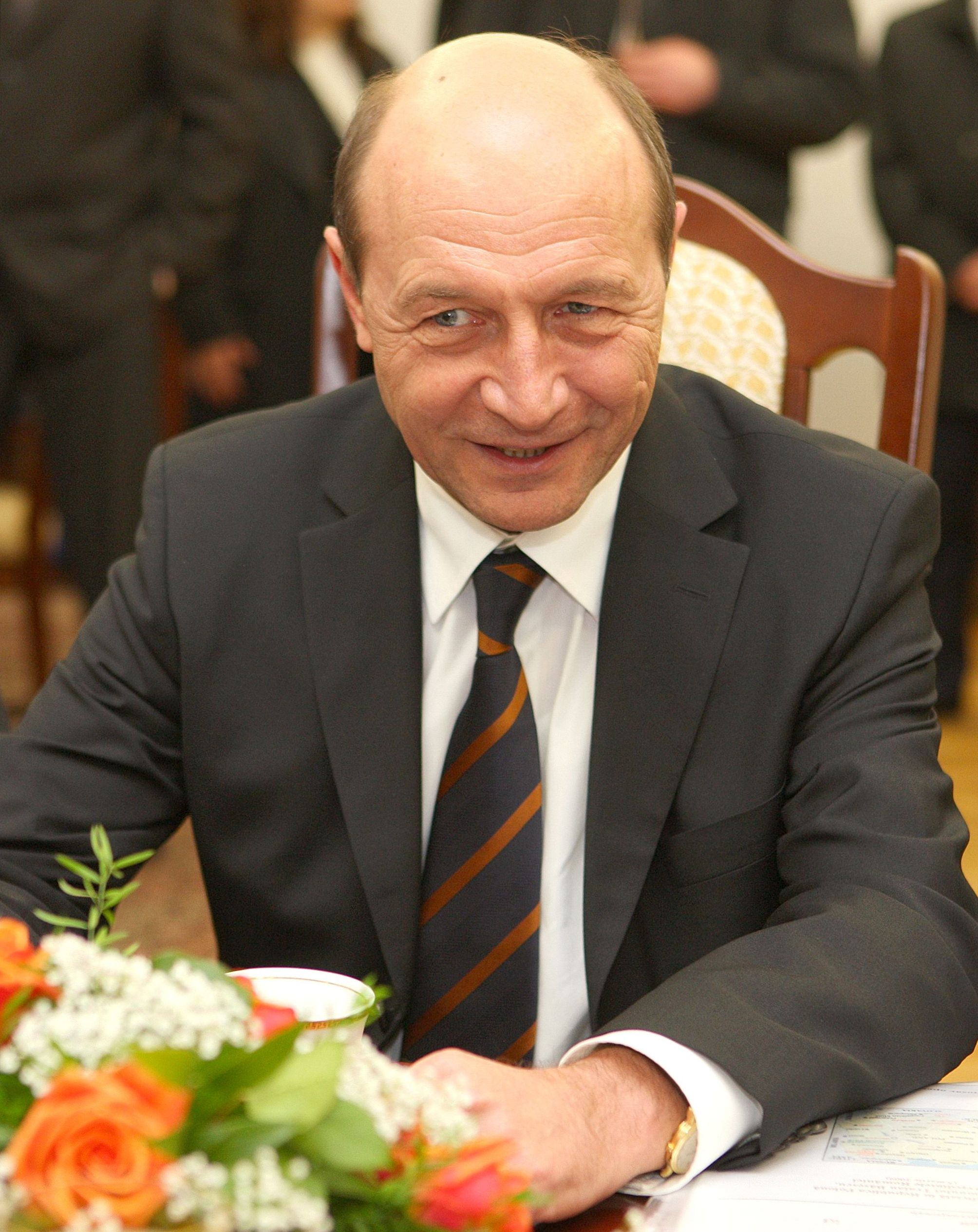 President of Romania Traian Băsescu in the Polish Senate